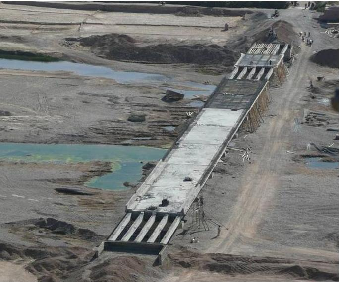 The following is the author's description of the photograph quoted directly from the photograph's Flickr page."Zeerko Valley - Shindand District - Afghanistan (Gen. 2010) - The bridge during the construction "